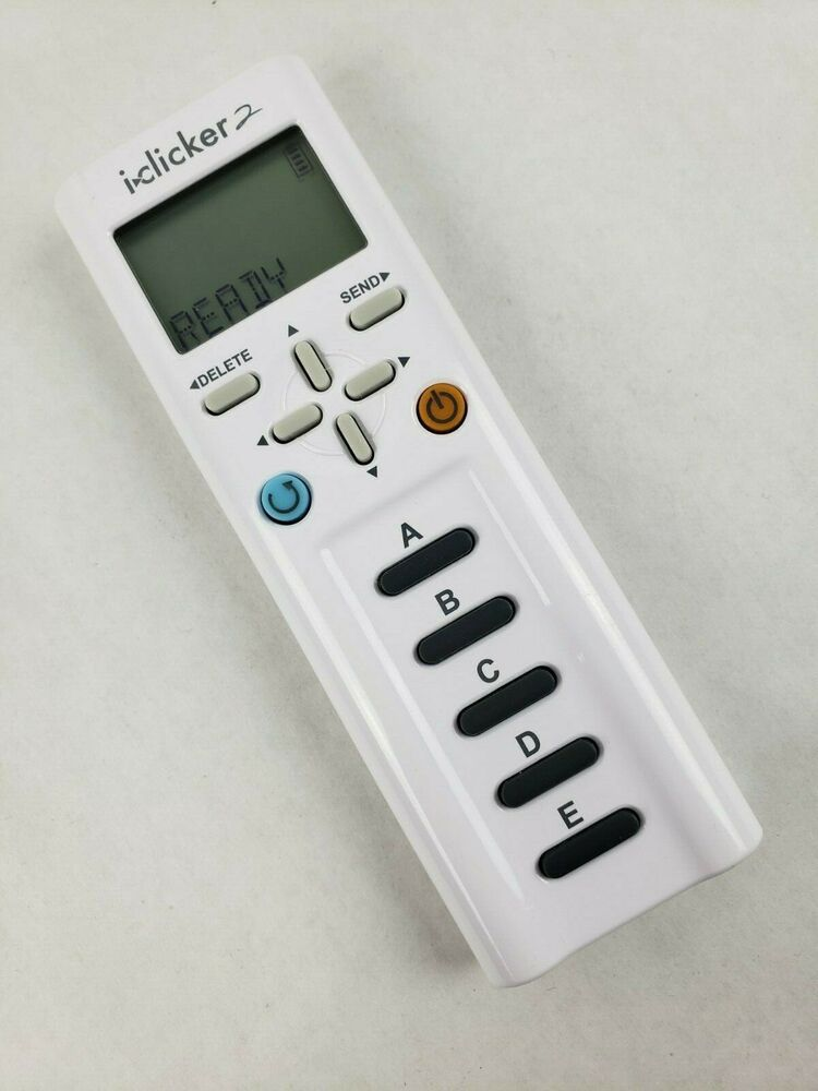 The clicker used for the World Scholar's Cup's Scholar's Bowl.